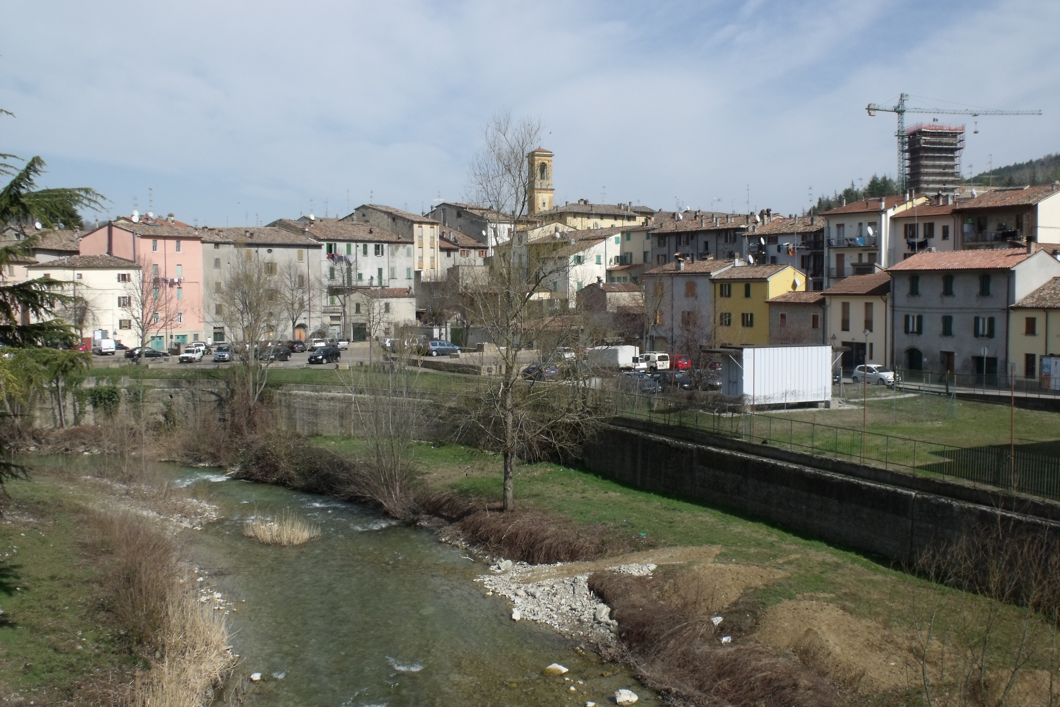 Panorama of Dovadola and the Montone River, Province of Forlì-Cesena, Region Emilia-Romagna, Italy